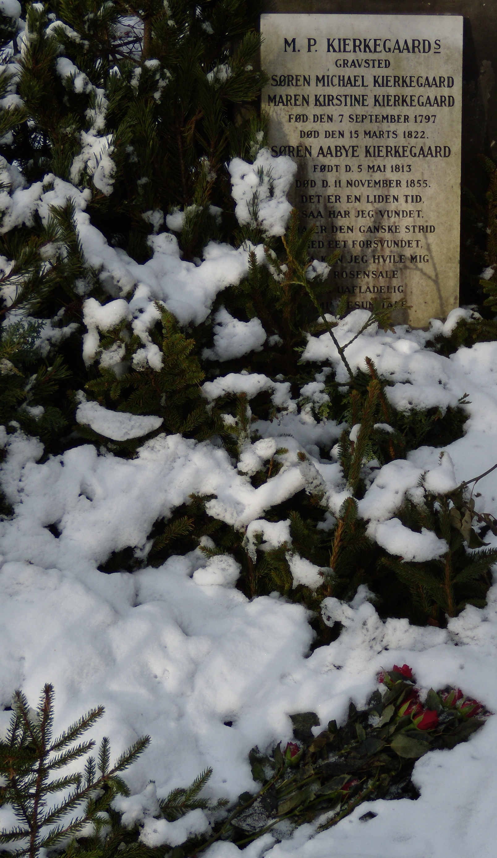 Søren Aabye Kierkegaard's tombstone in Assistens Kirkegård.